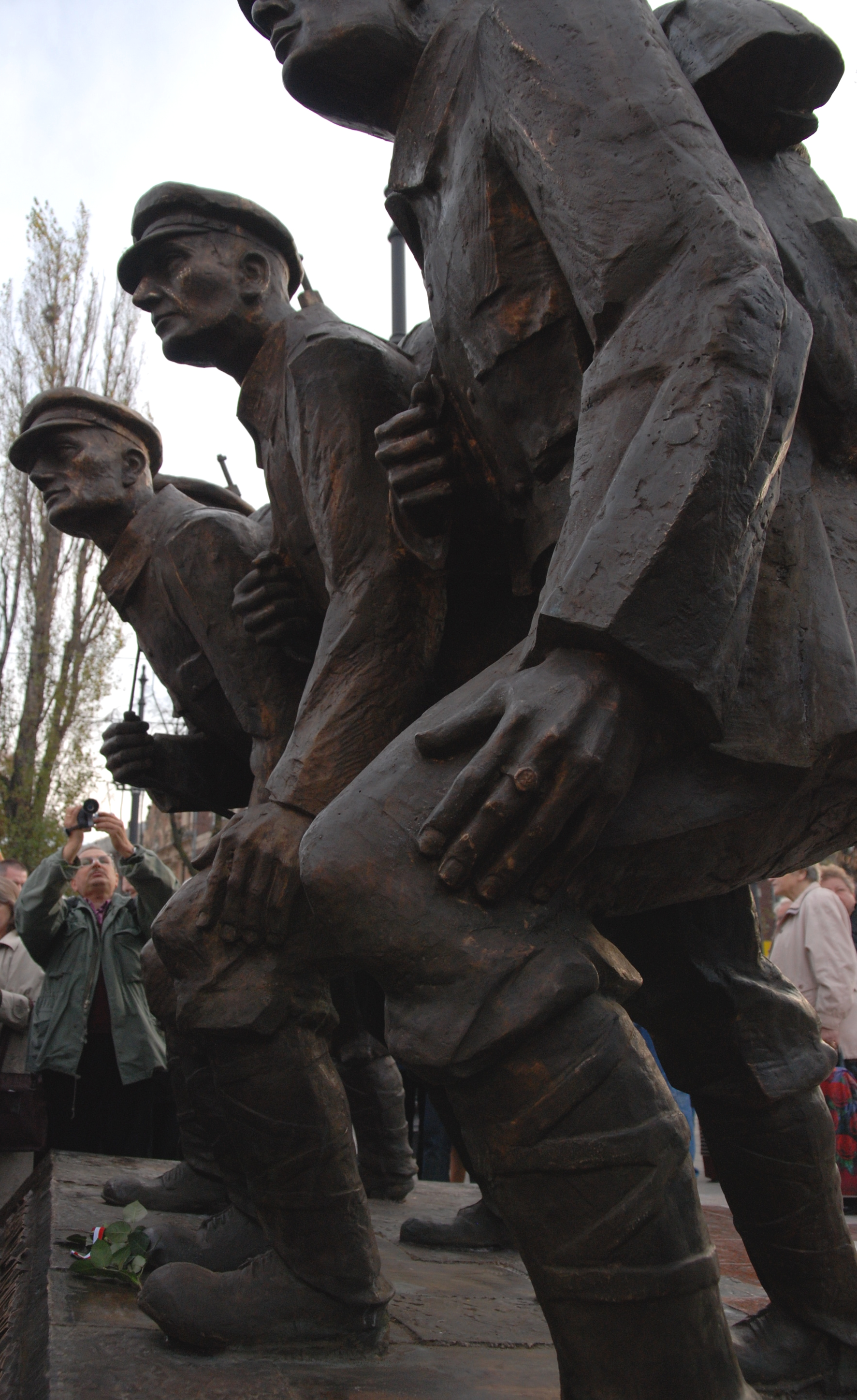 Józef Piłsudski Monument, Kraków